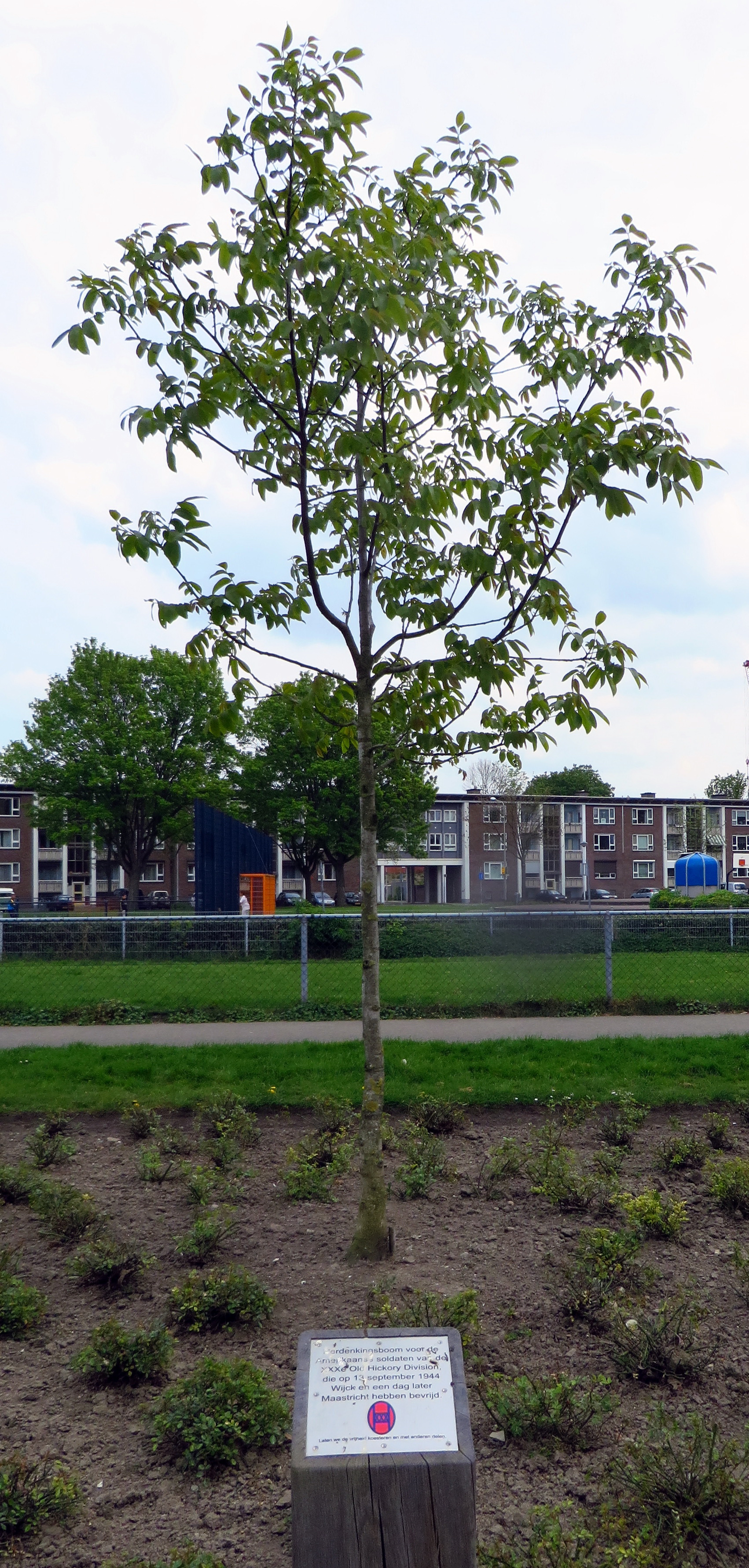 The hickory tree (Carya) was planted in 1989 in Old Hickoryplein in the Wyckerpoort quarter of Maastricht, the Netherlands.